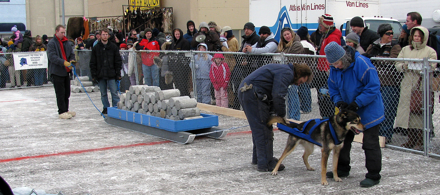 IFDA (Interior freight dog association) Championship. Alaska.